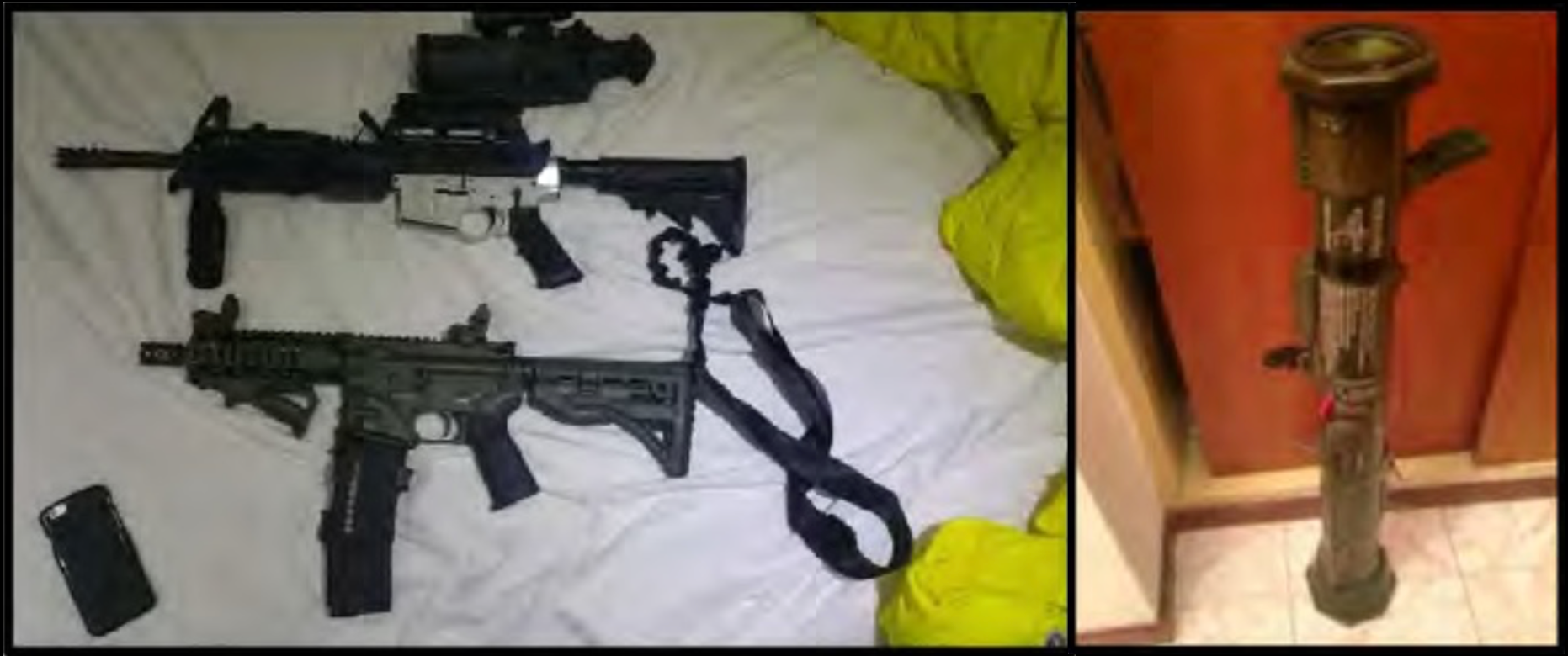 Two photographs taken by Efrain Antonio Campo Flores from left to right: A September 20, 2015 photo showing two firearms laying near an iPhone confiscated from Campo. An AT4 rocket launcher seen in a photo from September 25, 2015.